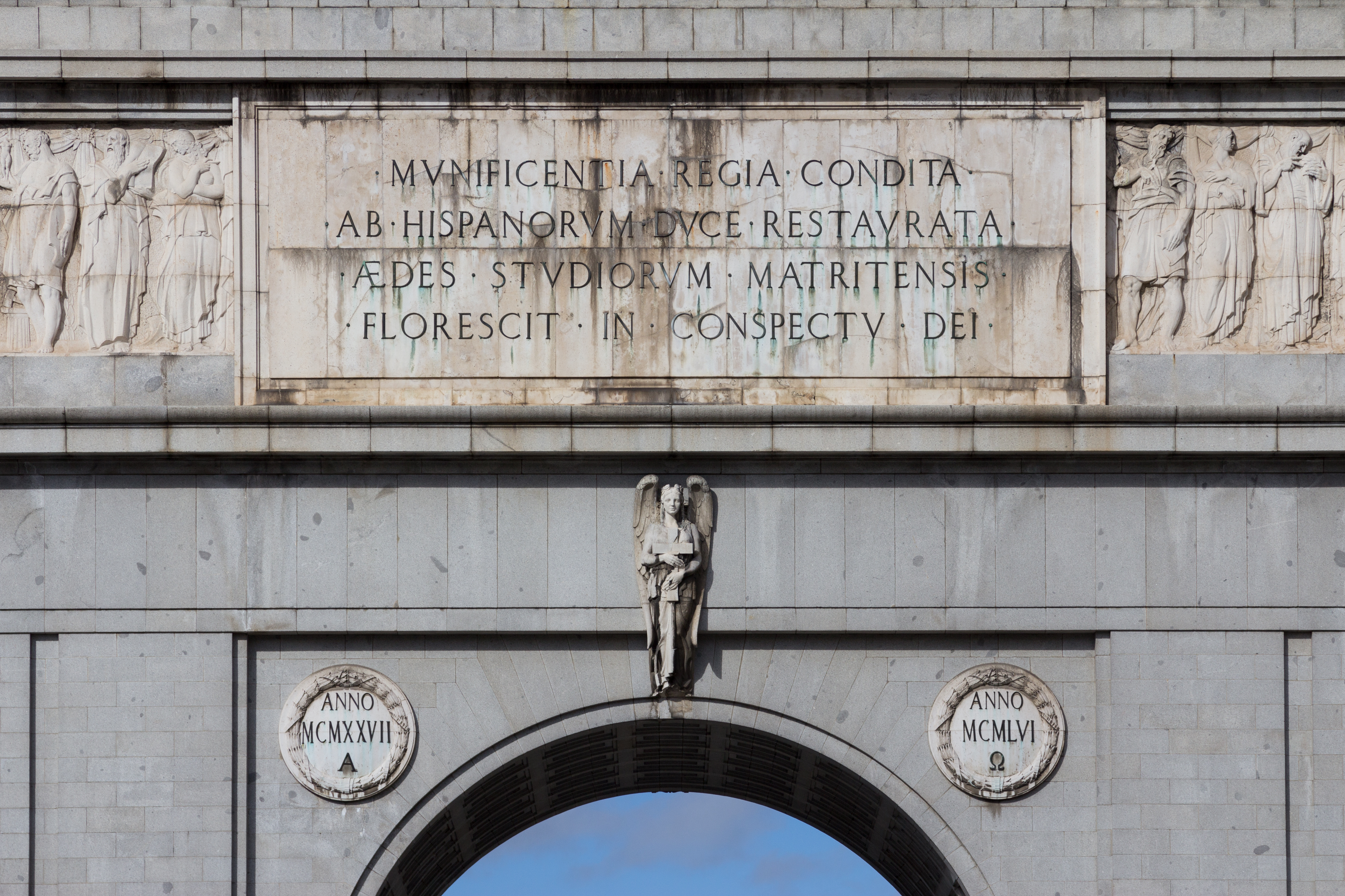 Victory arch, Madrid, Spain.